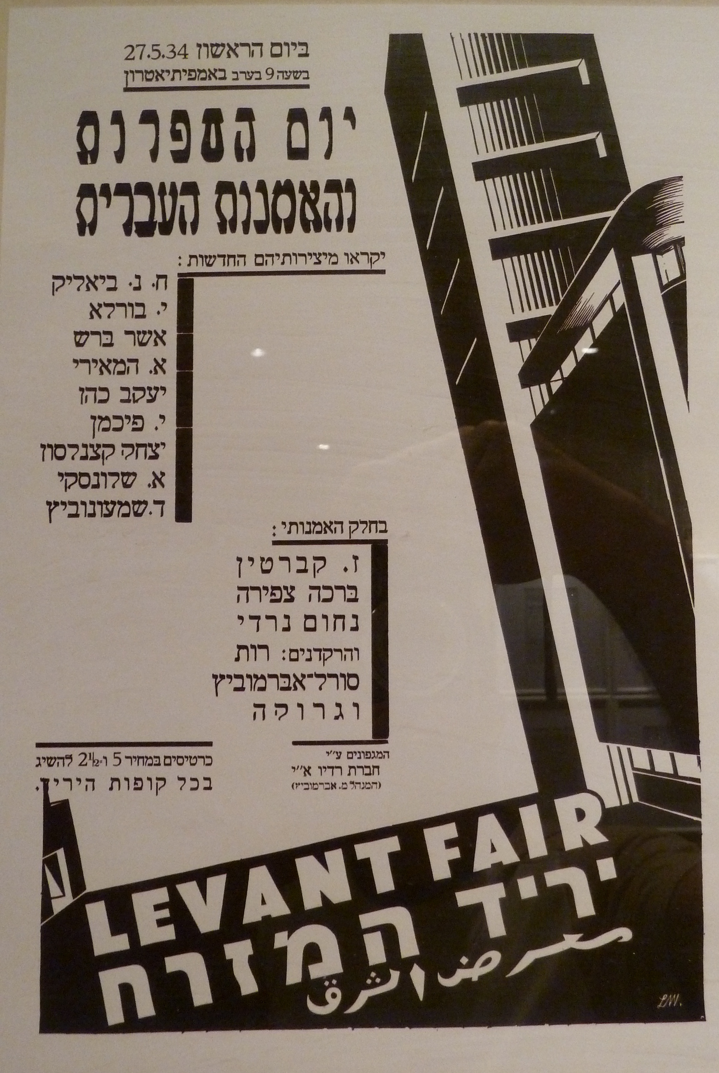 Tel Aviv Writer's Union ads from the 1920s and the 1930s. An exhibition at the Shalom Meir Tower